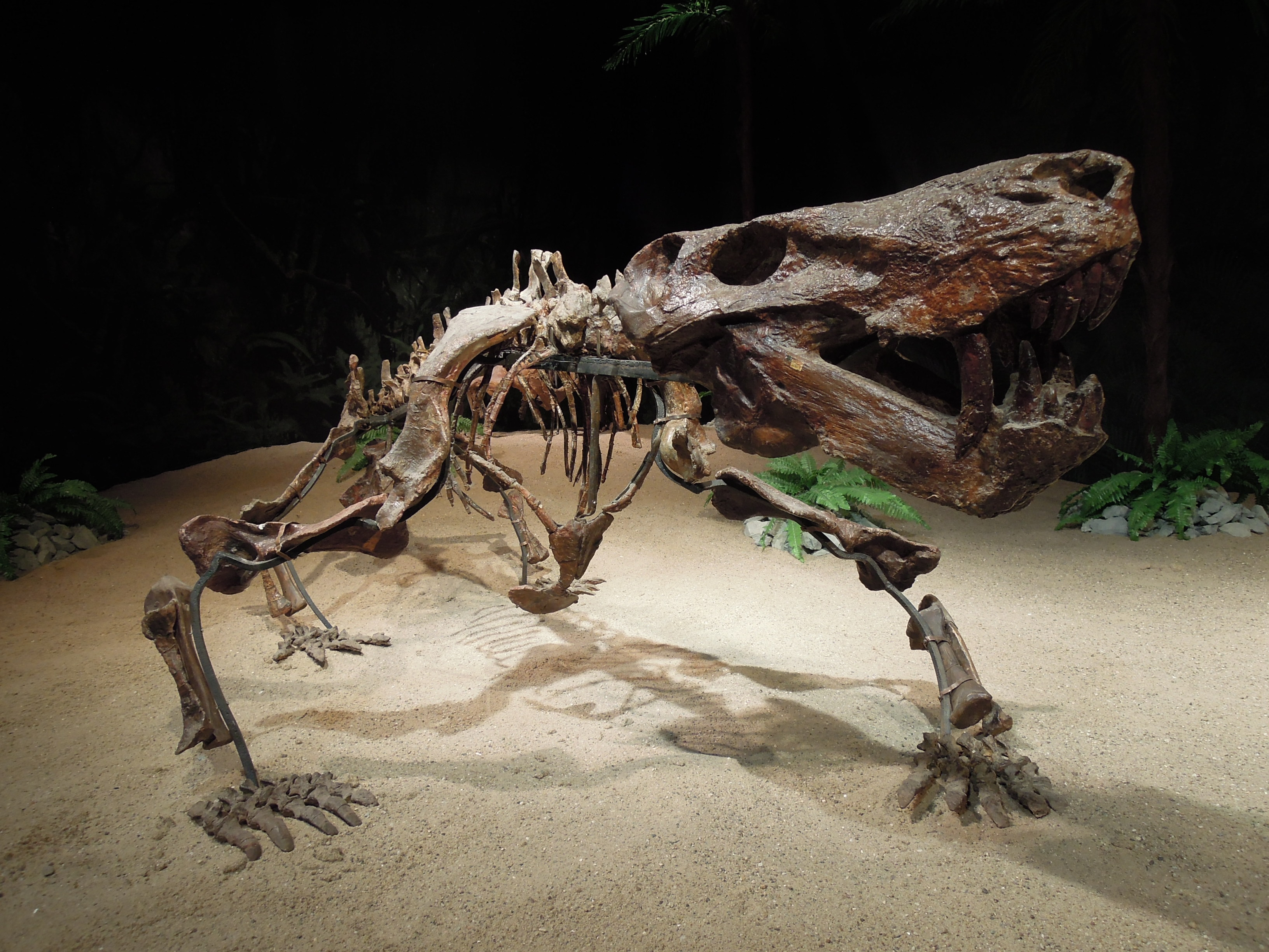 Inostrancevia alexandri, Dinosaurium exhibition, Prague, Czech Republic